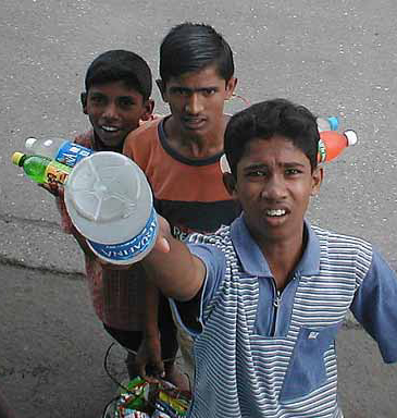 Street kids in Mumbai, India selling snacks and drinks to bus passengers Photograph taken ~22 Sept 2003 by Joedjemal Edited 2004 05 10 - see talk page for details Commons Note: On the original en talk page, was the following note: Image corrections made: One or more of perspective, horizontal/vertical levelling, contrast, sharpness, saturation, brightness, levels, removal of image elements, cropping. Every effort was made to ensure the integrity of the original image. Denni 21:57, 2004 May 10 (UTC)